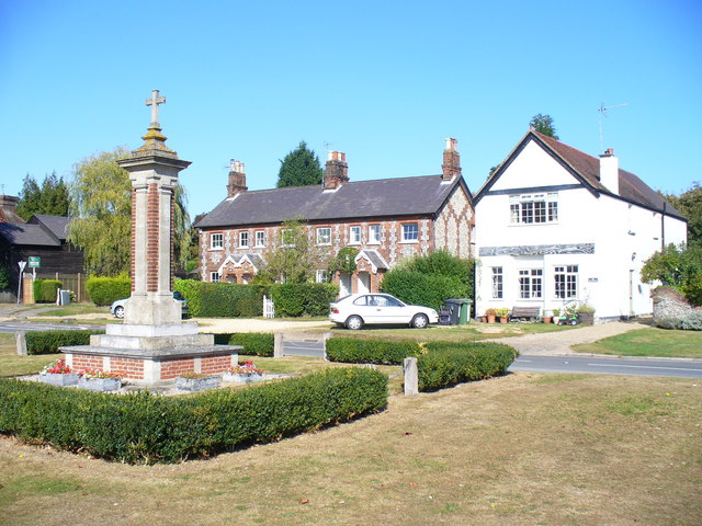 Chipperfield War Memorial Sited at the north-east corner of the common. Old flint and brick cottages line the roadside.